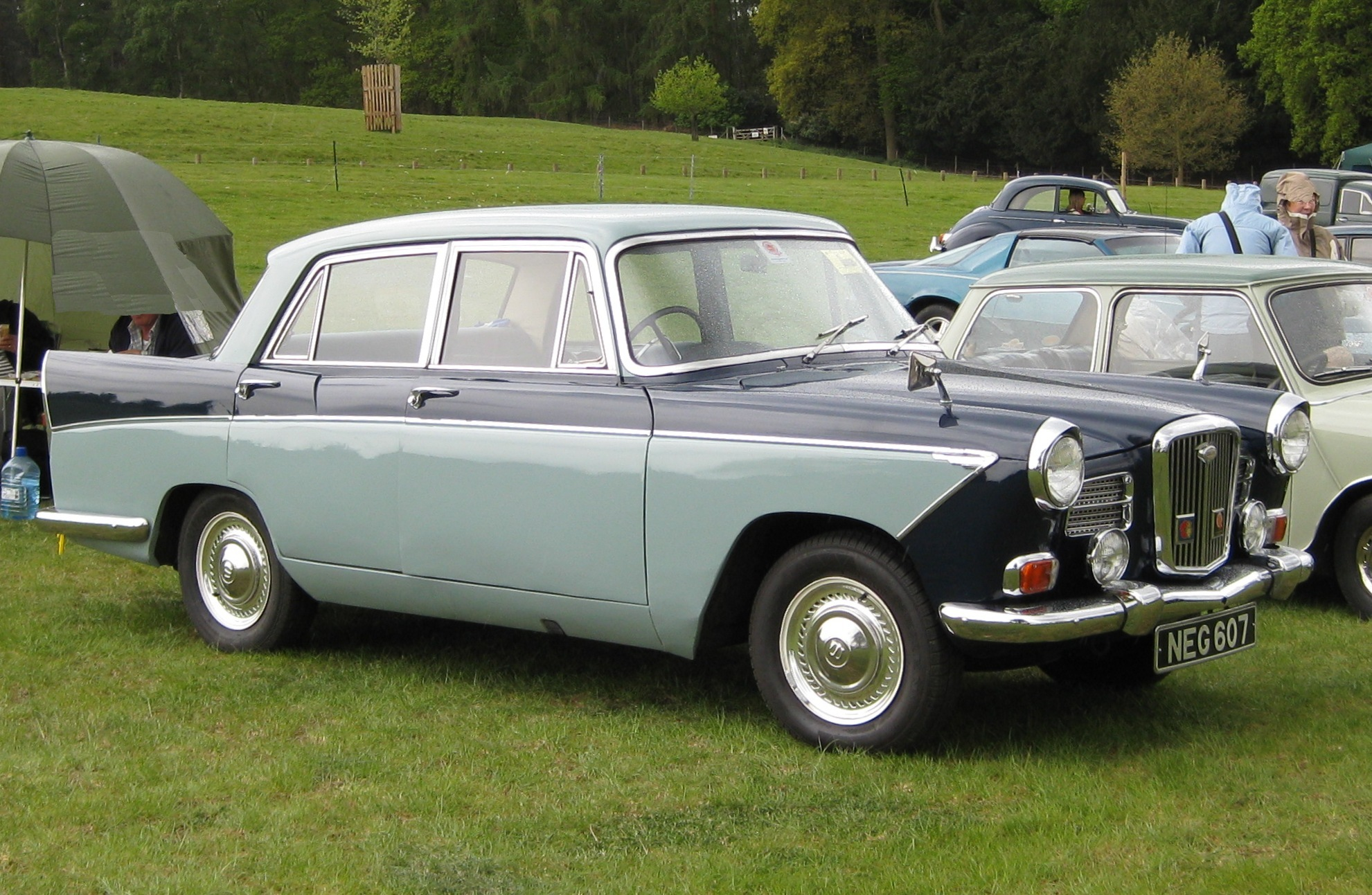 Wolseley 15/50 Farina near Biggleswade